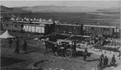 Bivouacking tents in Aleppo